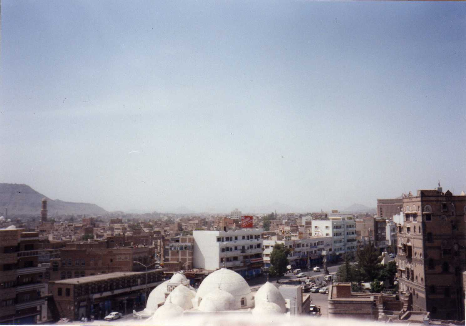 A view of downtown Sana'a Picture from my private album, taken in 1992.